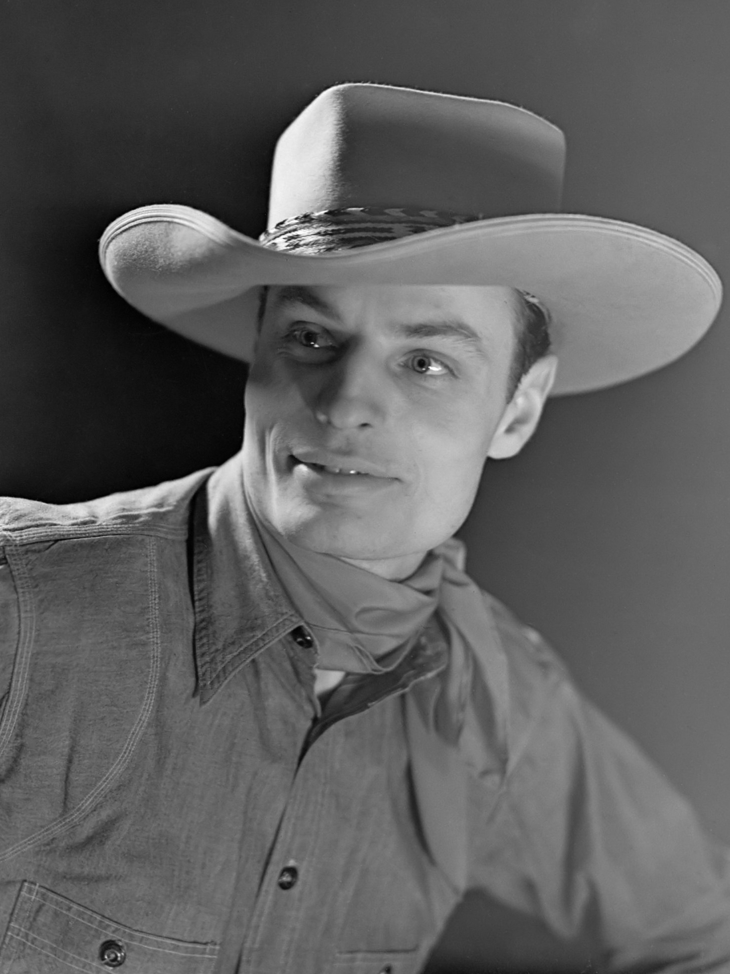 Wakanda Club Paris 1936 - Indian shows. Portrait of Paul Coze